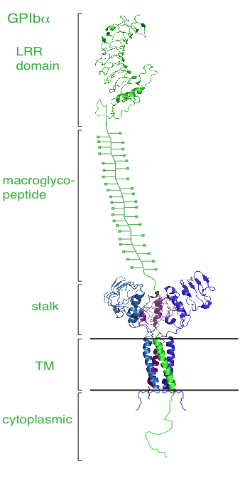 The various components shown include the leucine rich repeat domain, the macroglycopeptide, the stalk region, the transmembrane domain and the cytoplasmic tail.